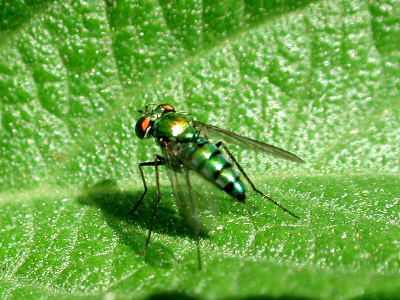 Condylostylus in Maricopa County, Arizona, USA